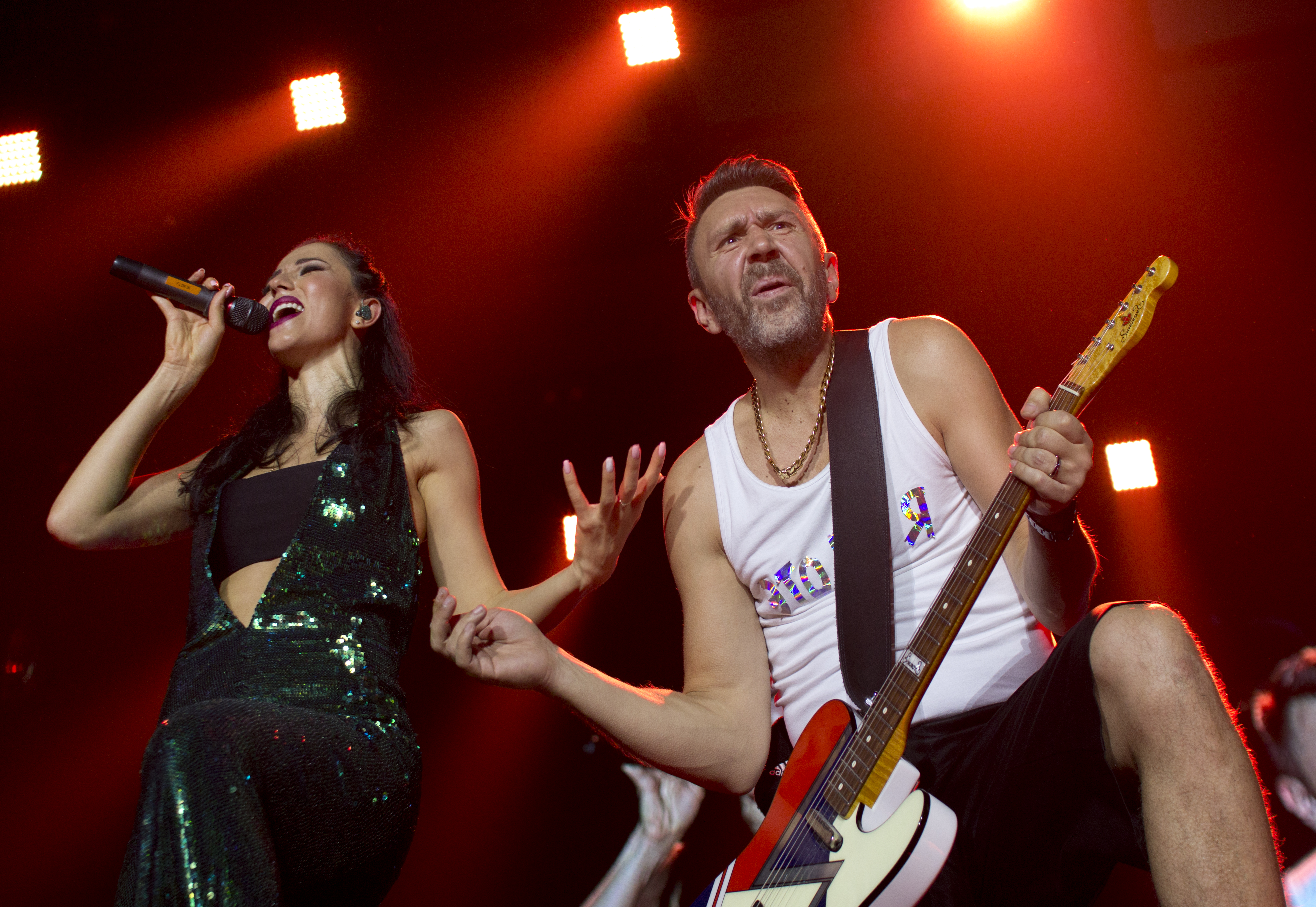 Sergey Shnurov, concert of band Leningrad in Prague, Forum Karlín 2017 This serie was captured thanks to Berin Art